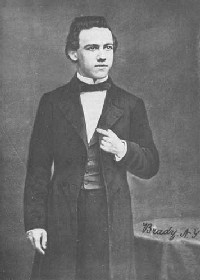 Paul Morphy, age 17, 1854 in New York.